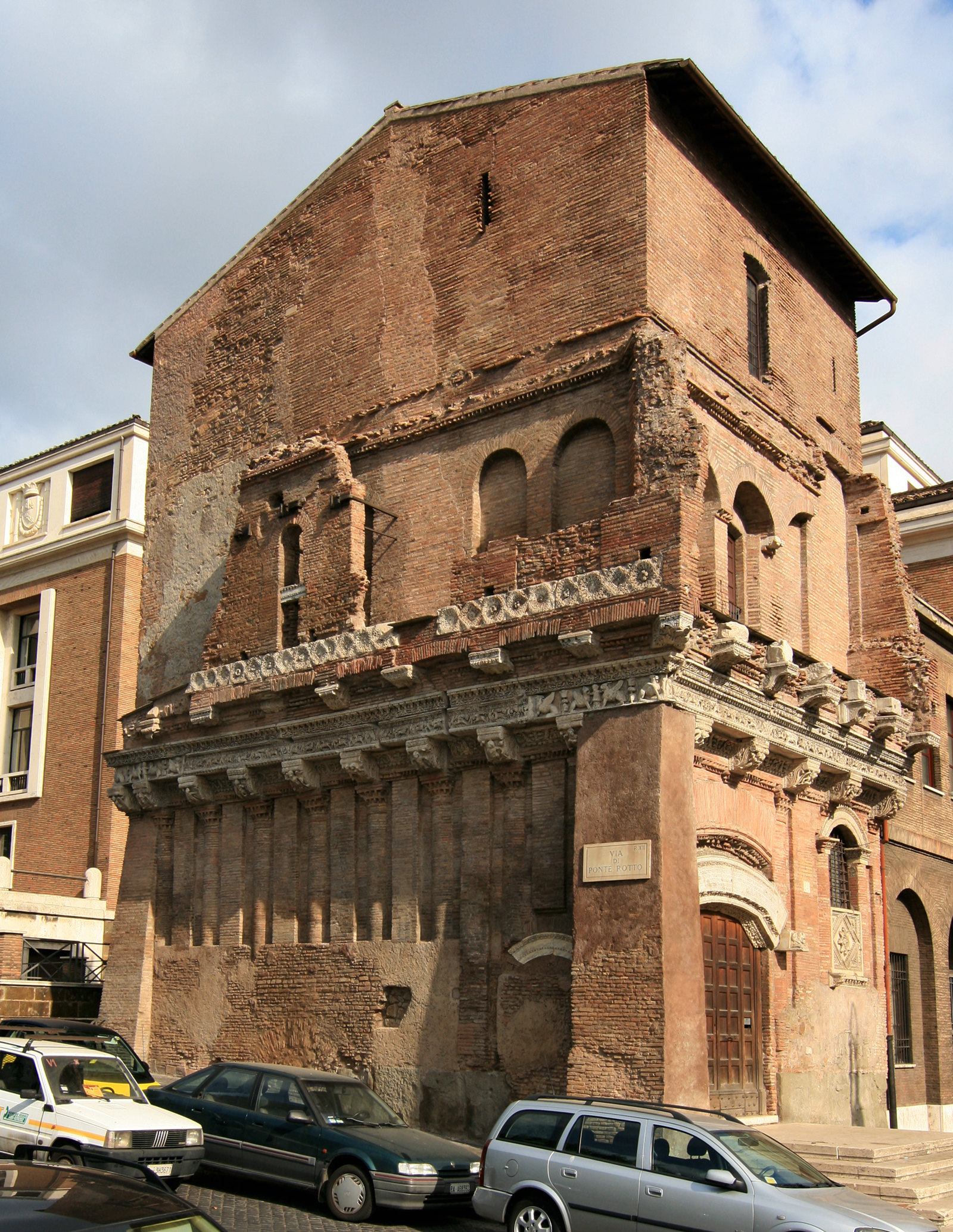 Casa dei Crescenzia (Casa di Cola di Rienzo, Casa di Pilato), Rome.